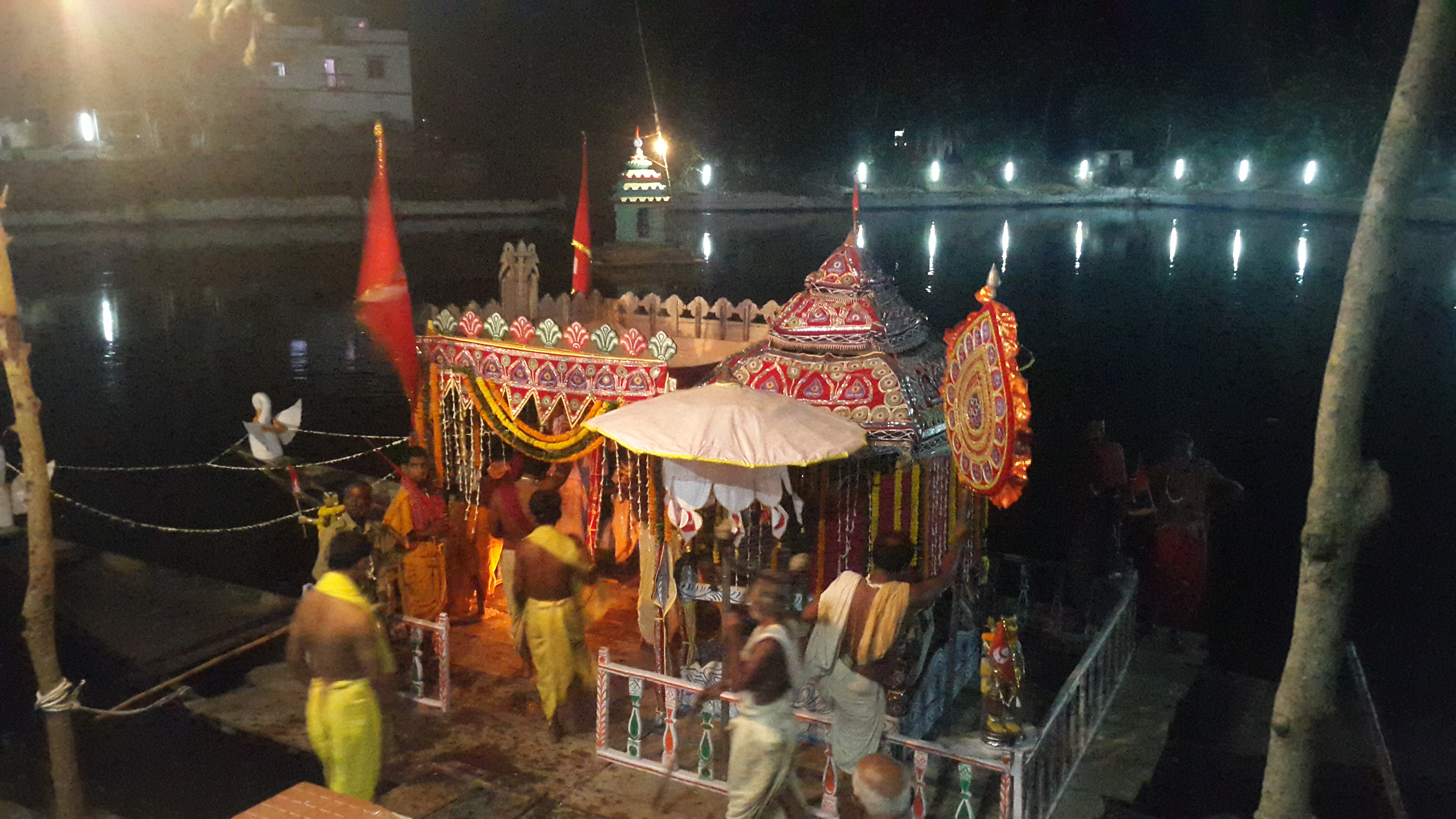 The annual chandan yatra festival of satyabadi gopinath at sakhigopal